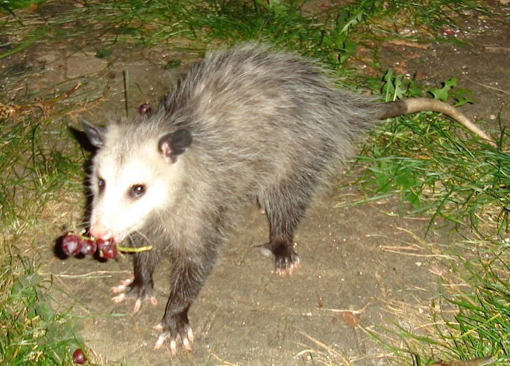 photograph of a Virginia opossum with some purple grapes. Patricia O'Tuama, northern Illinois, Sept 24, 2007.